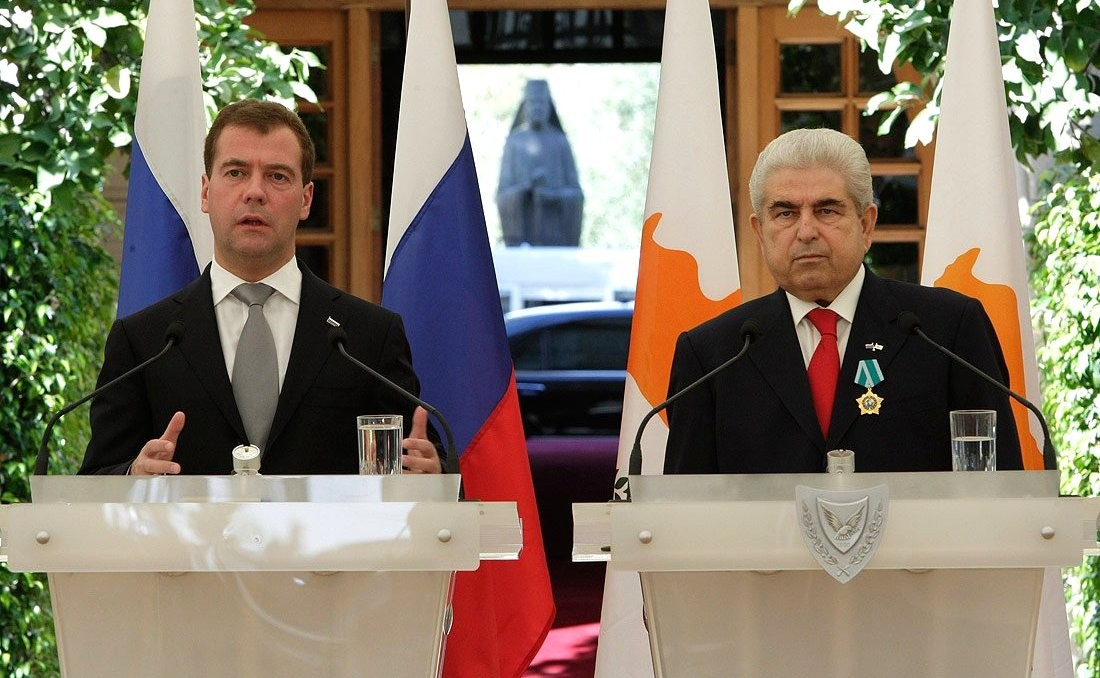 News conference following Russian-Cypriot talks.